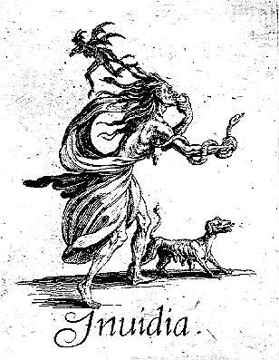 The Seven Deadly Sins (ca. 1620) - Envy